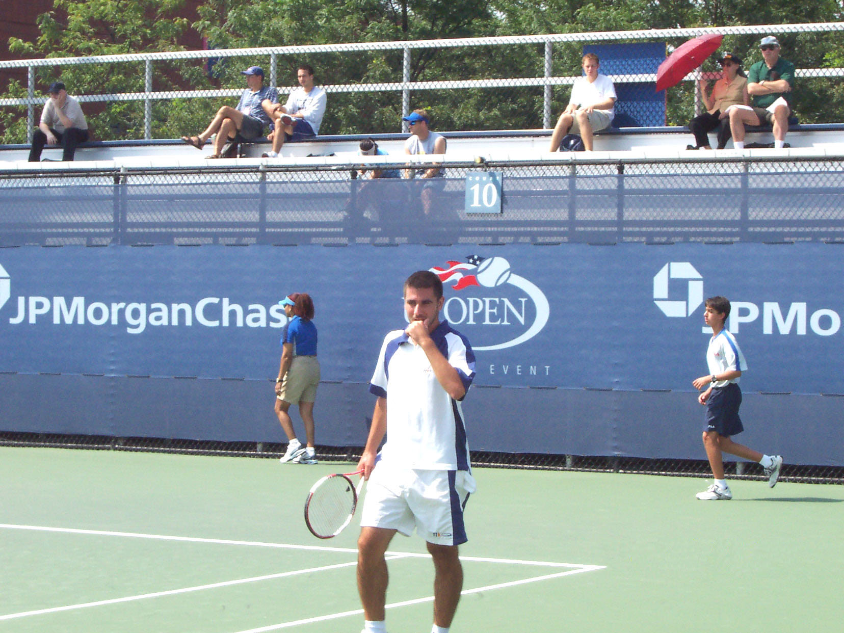 Roko Karanusic During The 2004 U.S. Open Qualifying